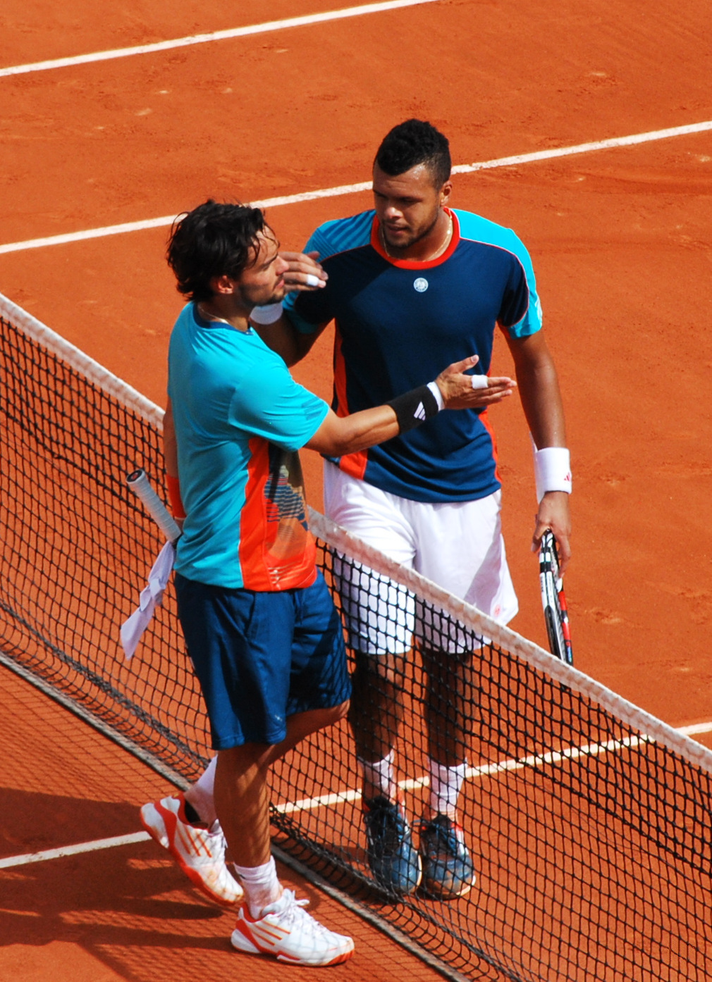 Fabio Fognini & Jo-Wilfried Tsonga at the end of their 3rd round match. Tsonga won 7-5, 6-4, 6-4. Day 6 of Roland Garros 2012.